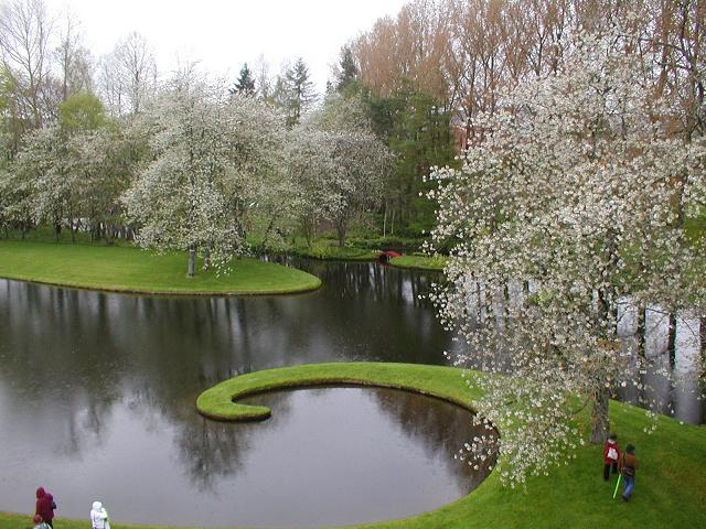 Fractal. Garden of Cosmic Speculation. Dumfries & Galloway (location ?)